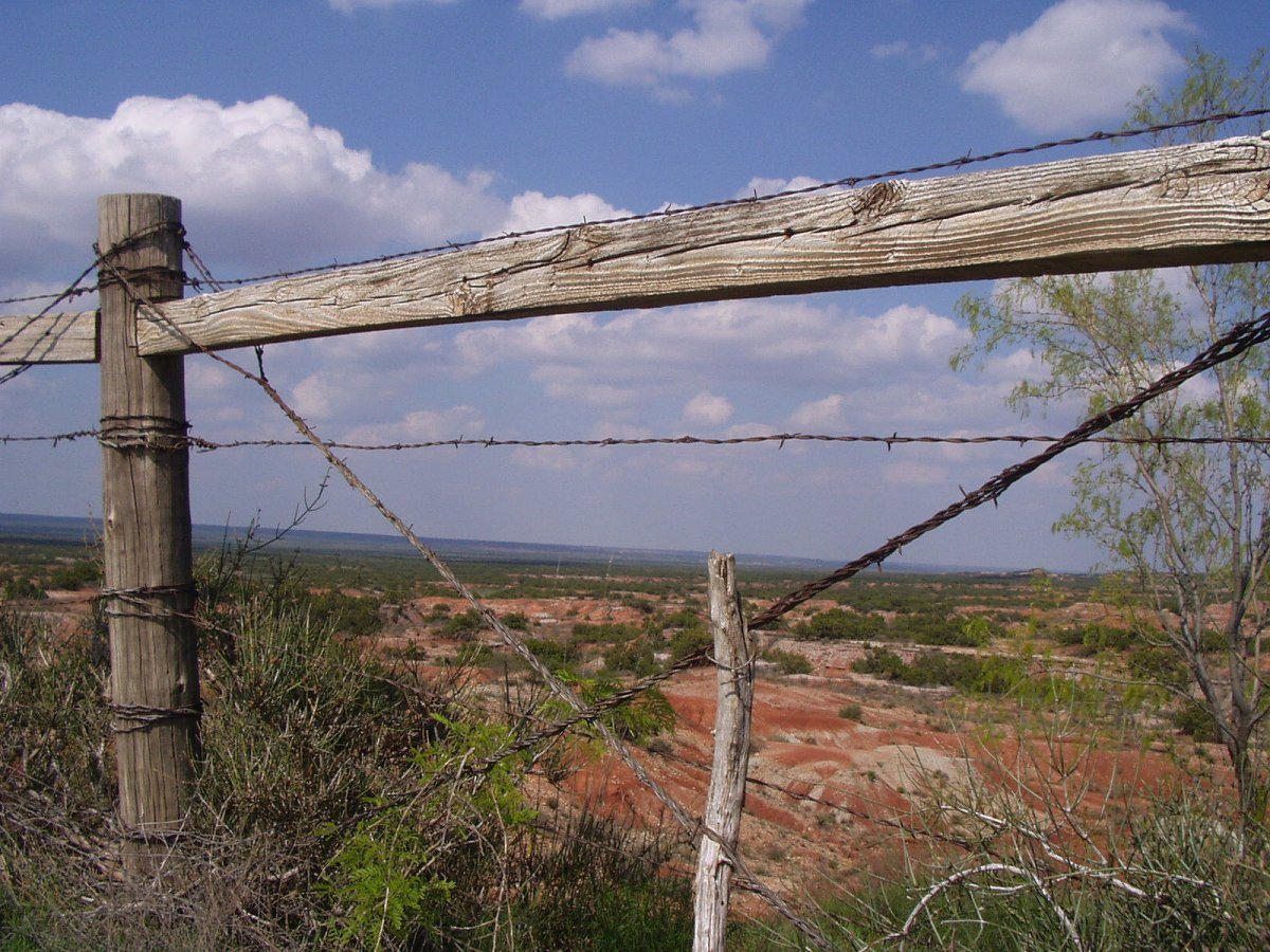 Barbed wire fence in West Texas, taken by me on the side of the road.